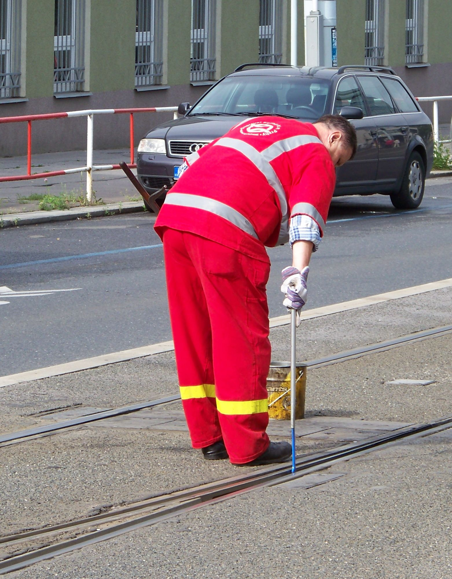 Prague-Žižkov, the Czech Republic. Koněvova street, a tram point cleaner.